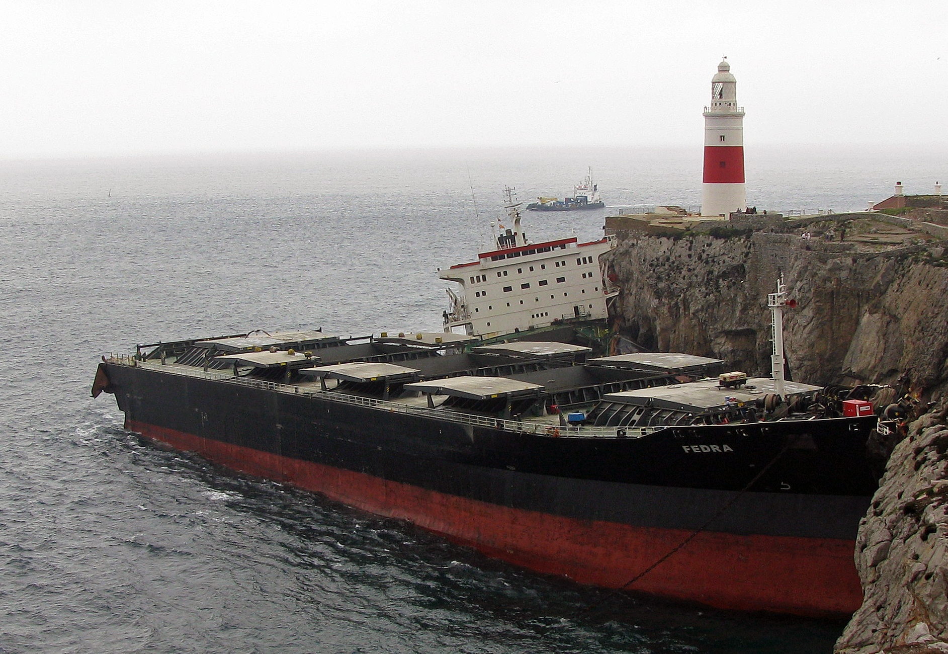 M/V Fedra was a Liberian-registered bulk-carrier cargo ship which ran aground and smashed against Europa Point, Gibraltar on 10 October 2008 following severe gale force winds. The ship was broken in half after drifting and pounded against the rock-face by the force of the wind and waves.